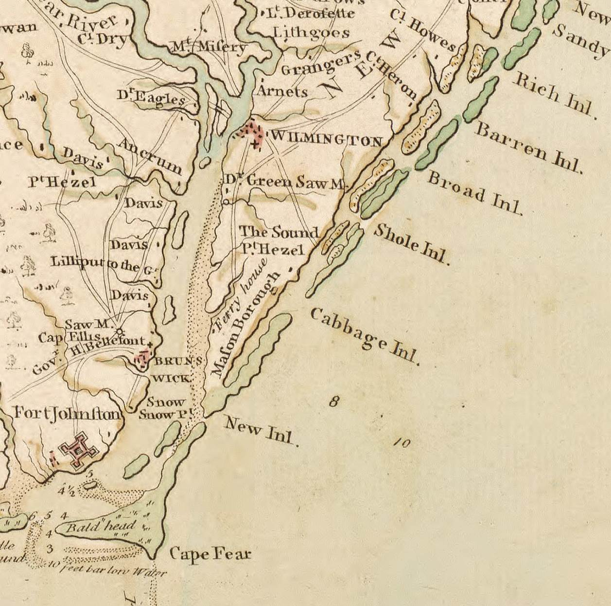 An excerpt of John Collet's 1770 map of North Carolina depicting several plantations and settlements on the lower Cape Fear River, including Wilmington, Brunswick, and the plantation of Colonel Howe.